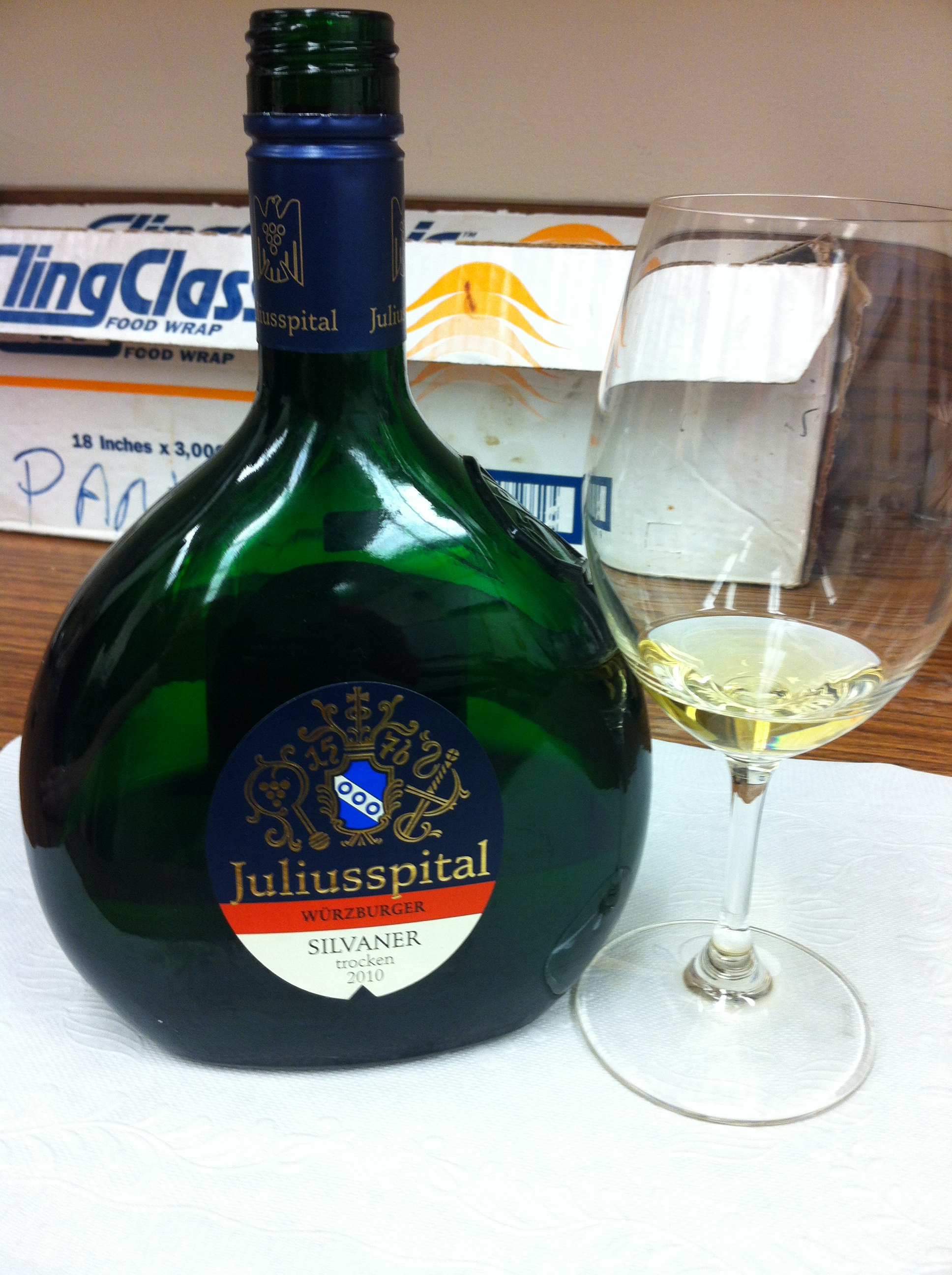 White German wine made from the Green Silvaner grape and packaged in the micronized traditional shaped Bocksbeutel bottle; Juliusspital Würzburg.